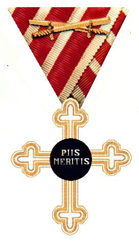 Ceoss for Military Chaplains